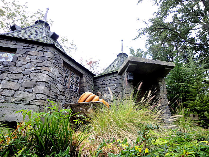 Hagrid's house, at the Wizarding World of Harry Potter, in Orlando, Florida.